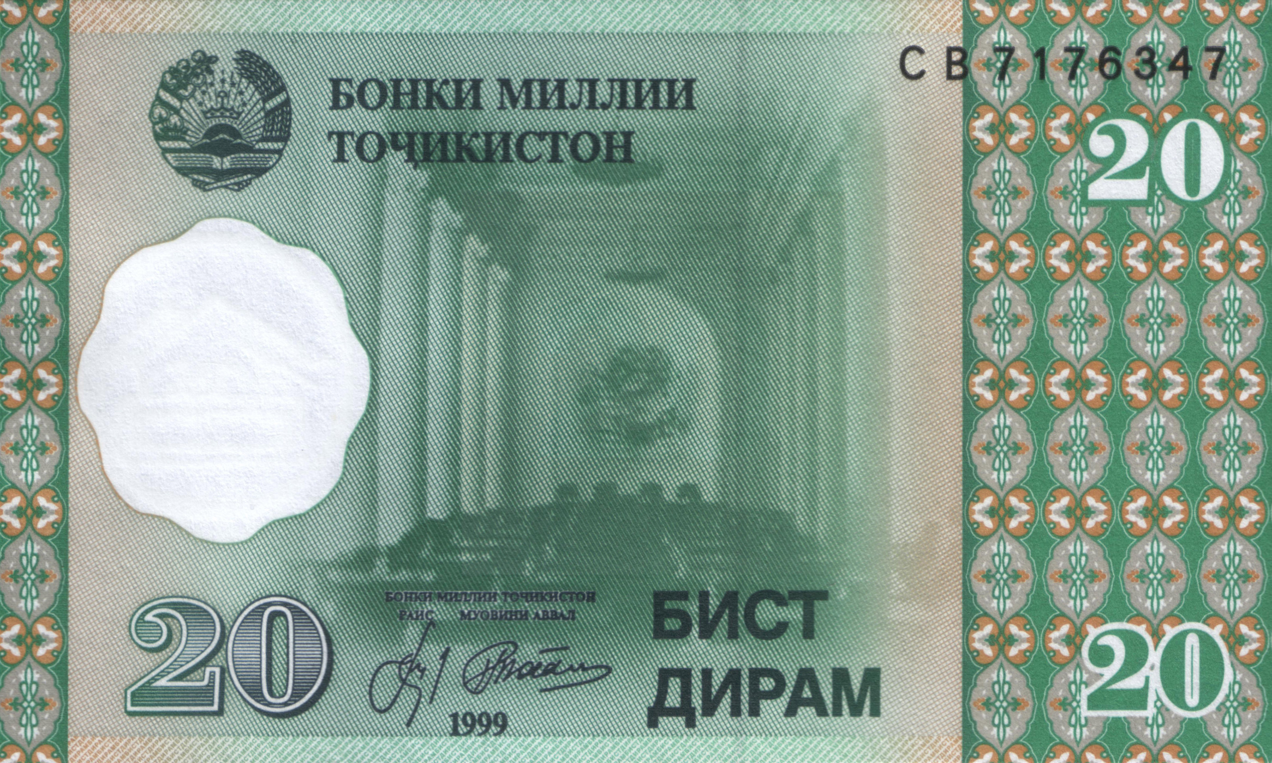 20 dirams of Tajikistan (1999)